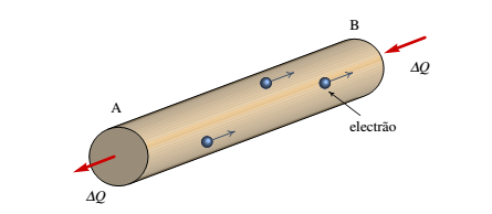 transf de cargas